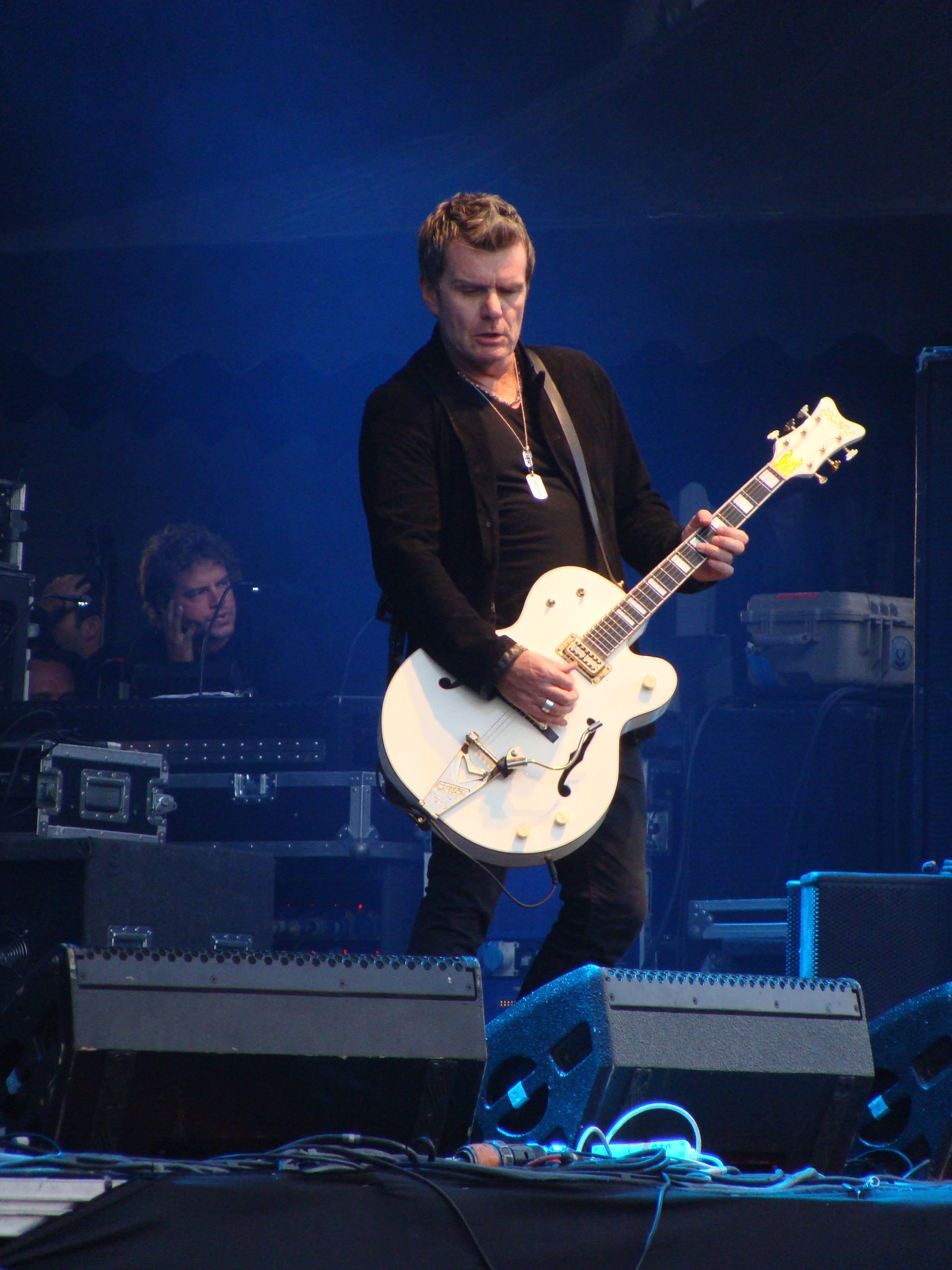 Billy Duffy (The Cult)